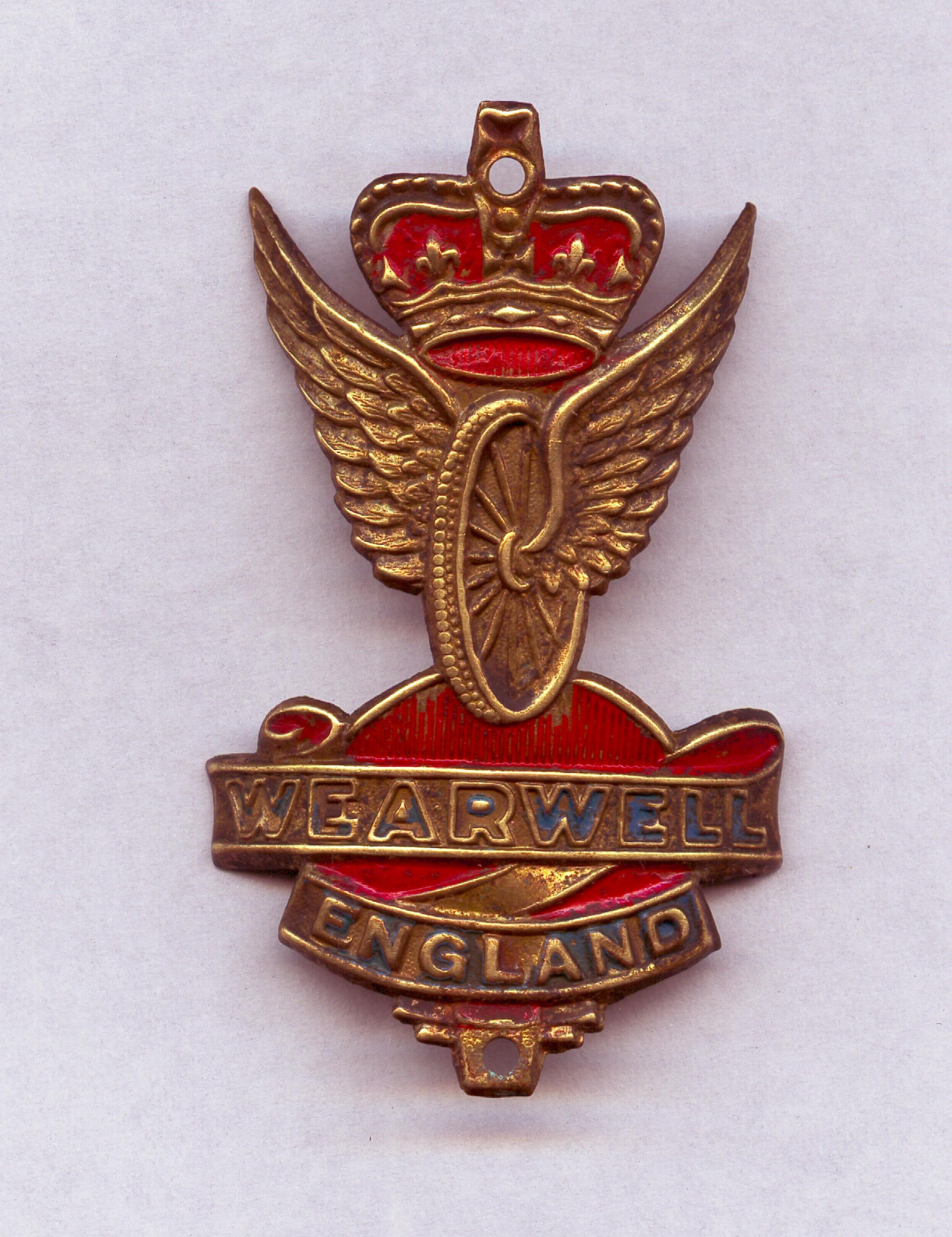 The original Wearwell Cycle Company badge